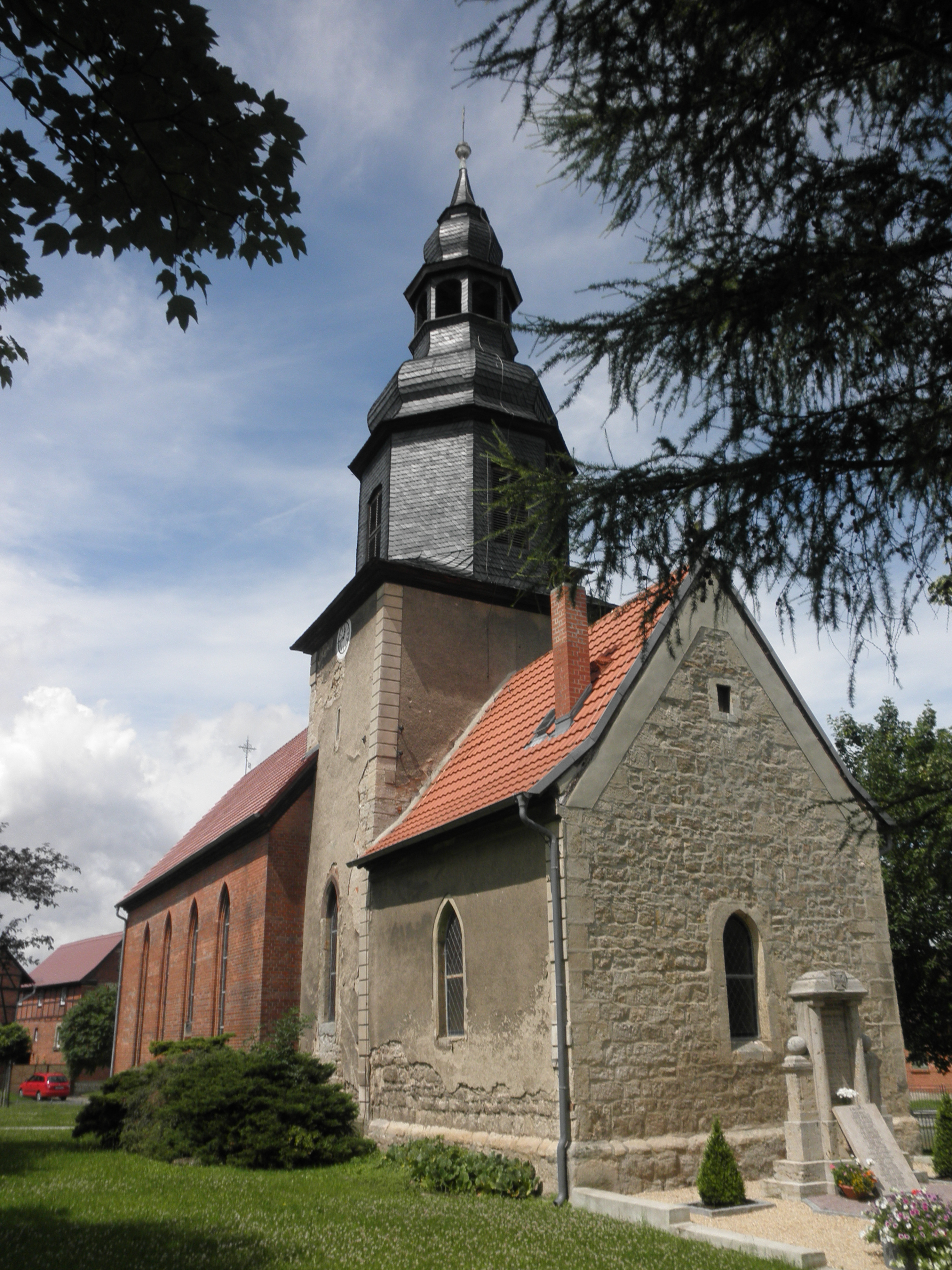 Church in Stobra (Saaleplatte) in Thuringia